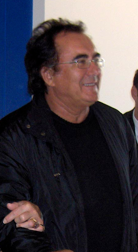 Singer Albano Carrisi in Fiumicino airport, October 2007